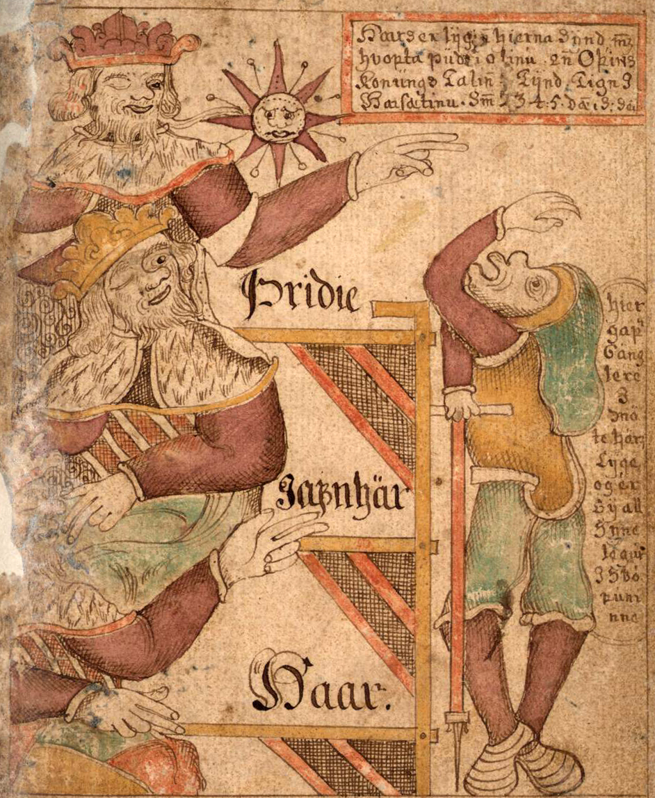 An illustration of High, Just-As-High, and Third with Gangleri, king Gylfi in diguise, from an Icelandic 18th century manuscript.